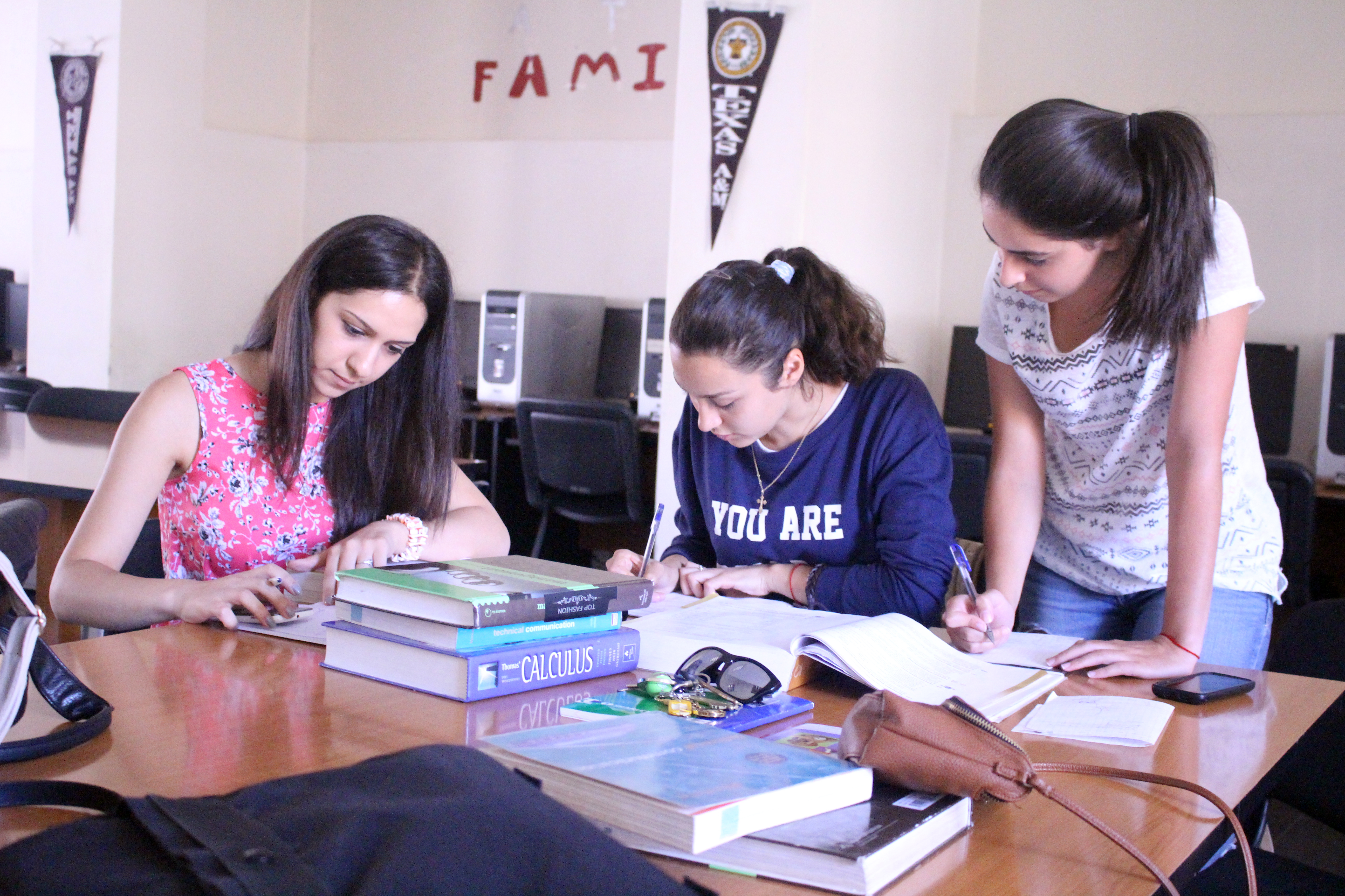 ATC students.